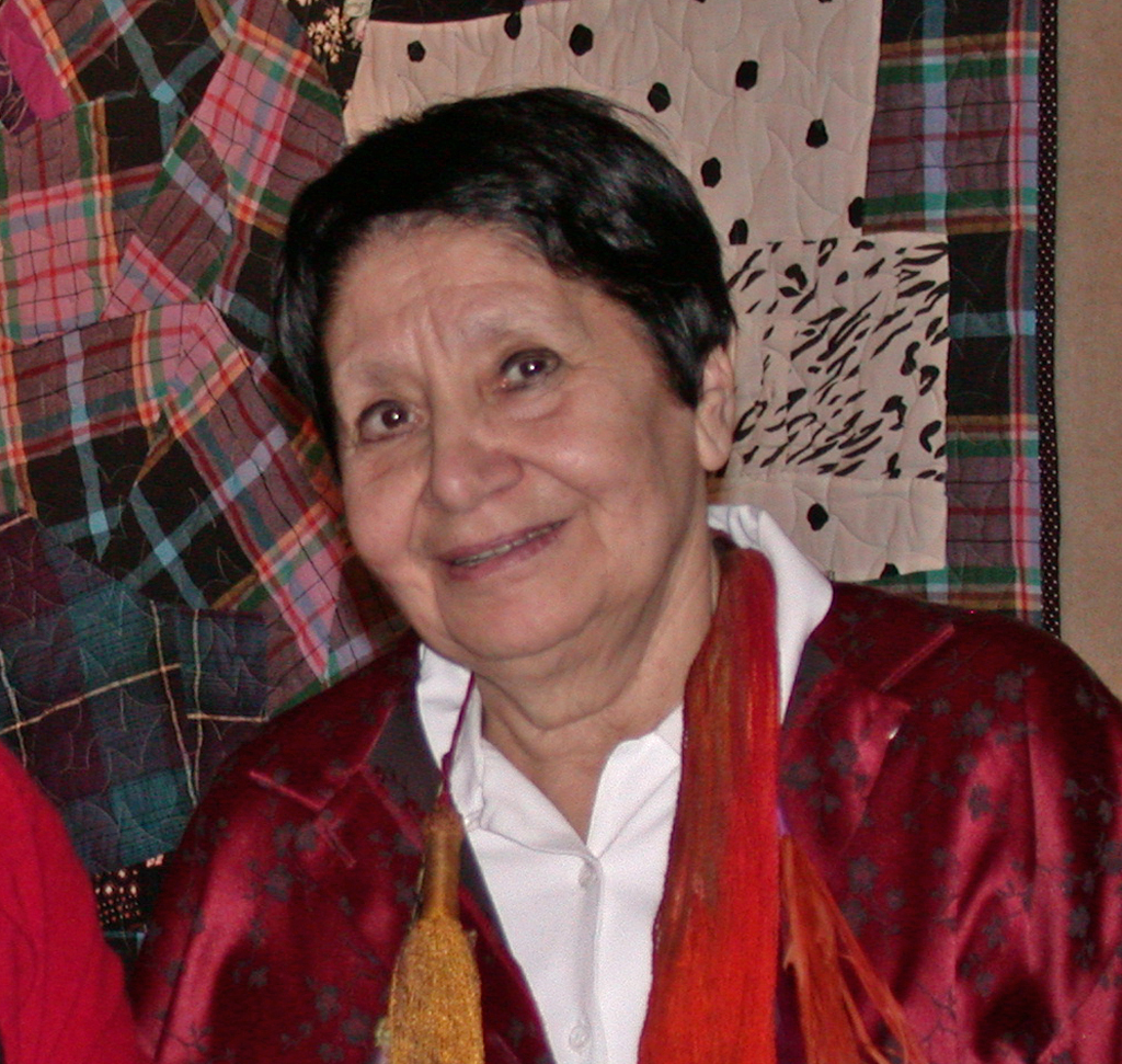 portrait